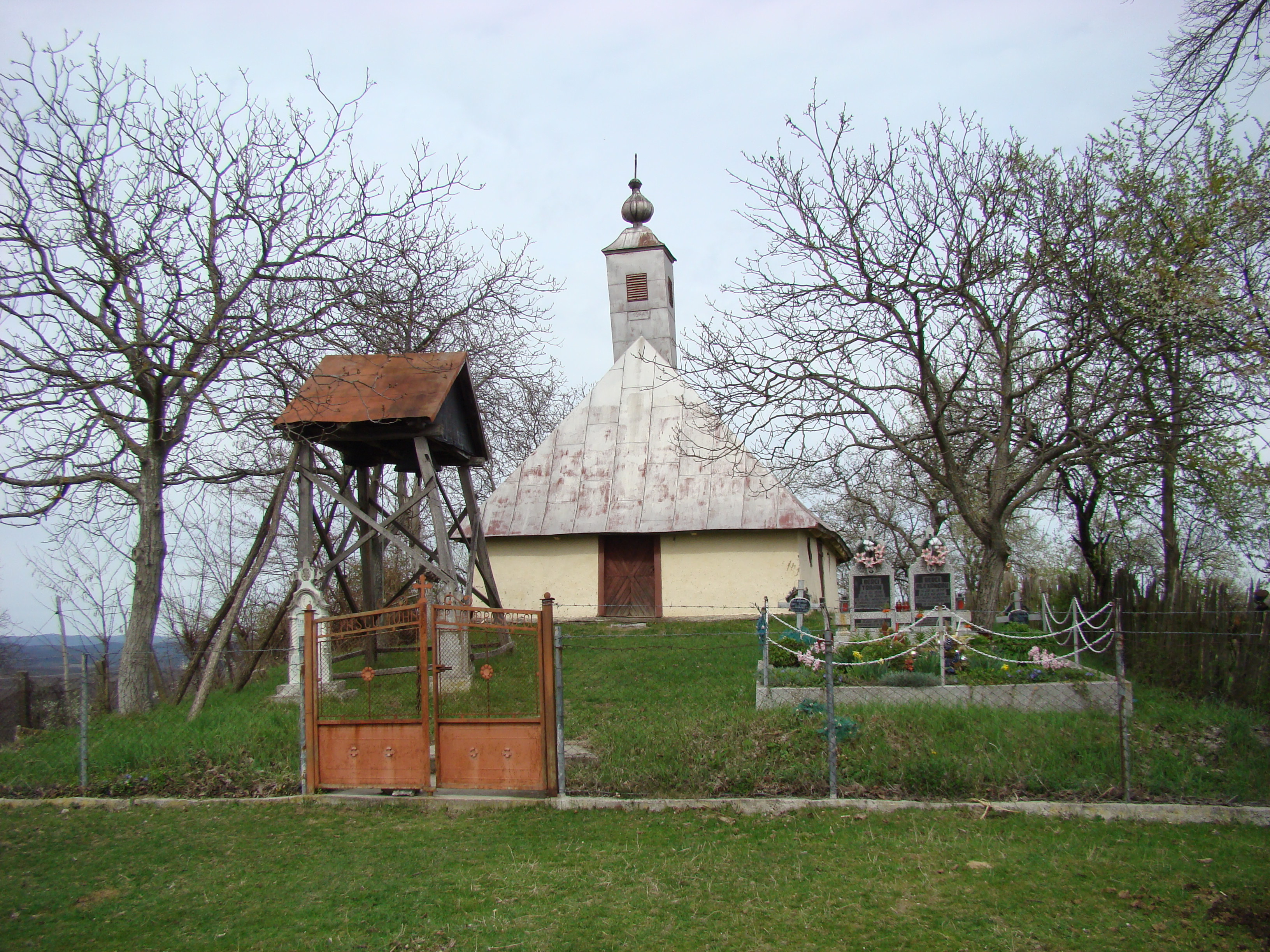 The old wooden church in Bruznic, Arad county, Romania